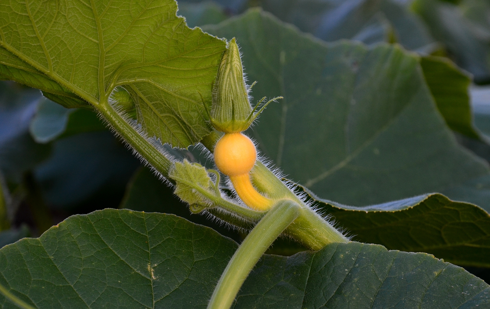 Cucurbita pepo, young pumpkin